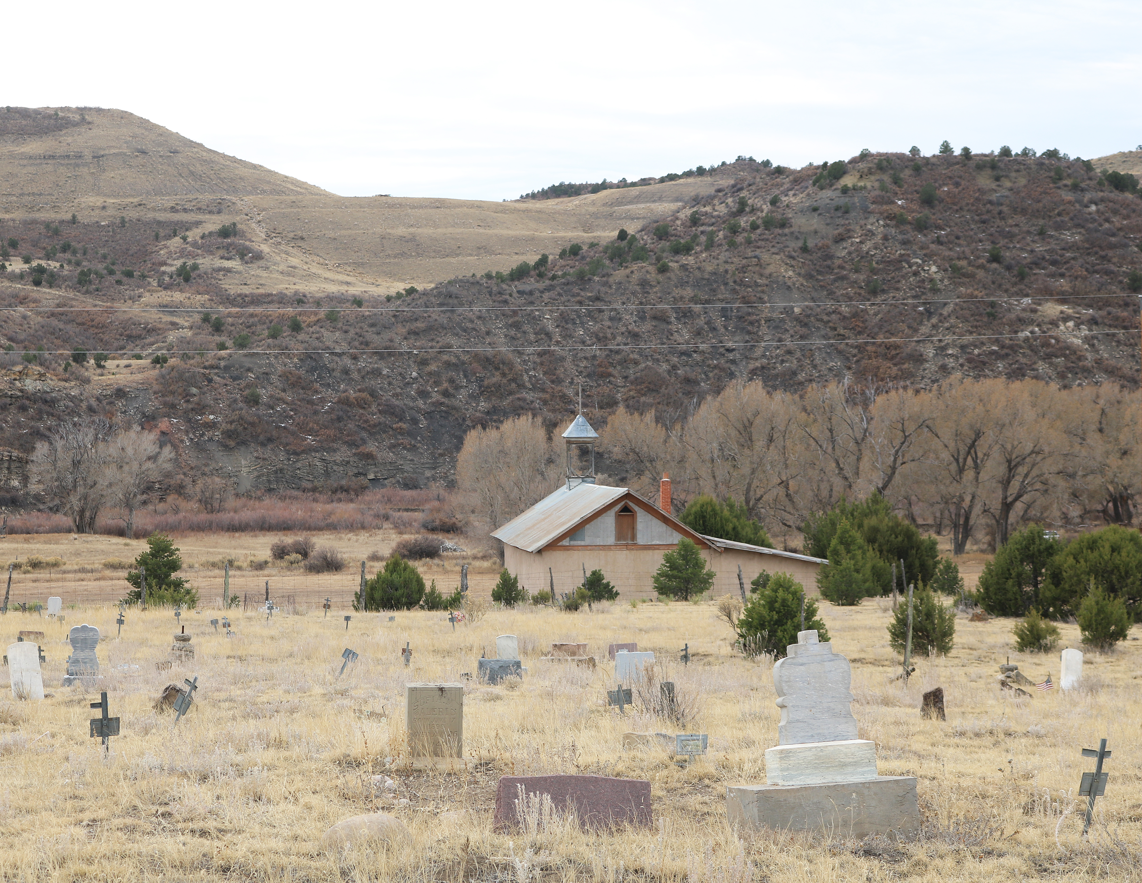 The Our Lady of Guadalupe Church and Medina Cemetery, located along Colorado State Highway 12 east of Weston, Colorado. The view shows the cemetery and the church. The highway, not visible in the picture, goes between the two. The Purgatoire River flows in the valley just beyond the church. The church and cemetery are listed on the National Register of Historic Places.